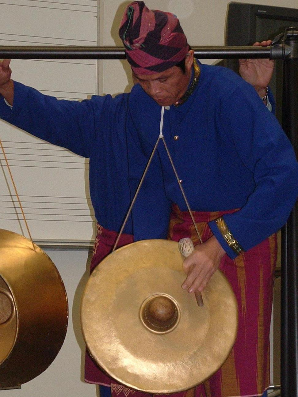 The two Philippine vertically hanged, wide-rimmed gongs known as the agung used as a supportive/accompanying instrument in the kulintang ensemble.